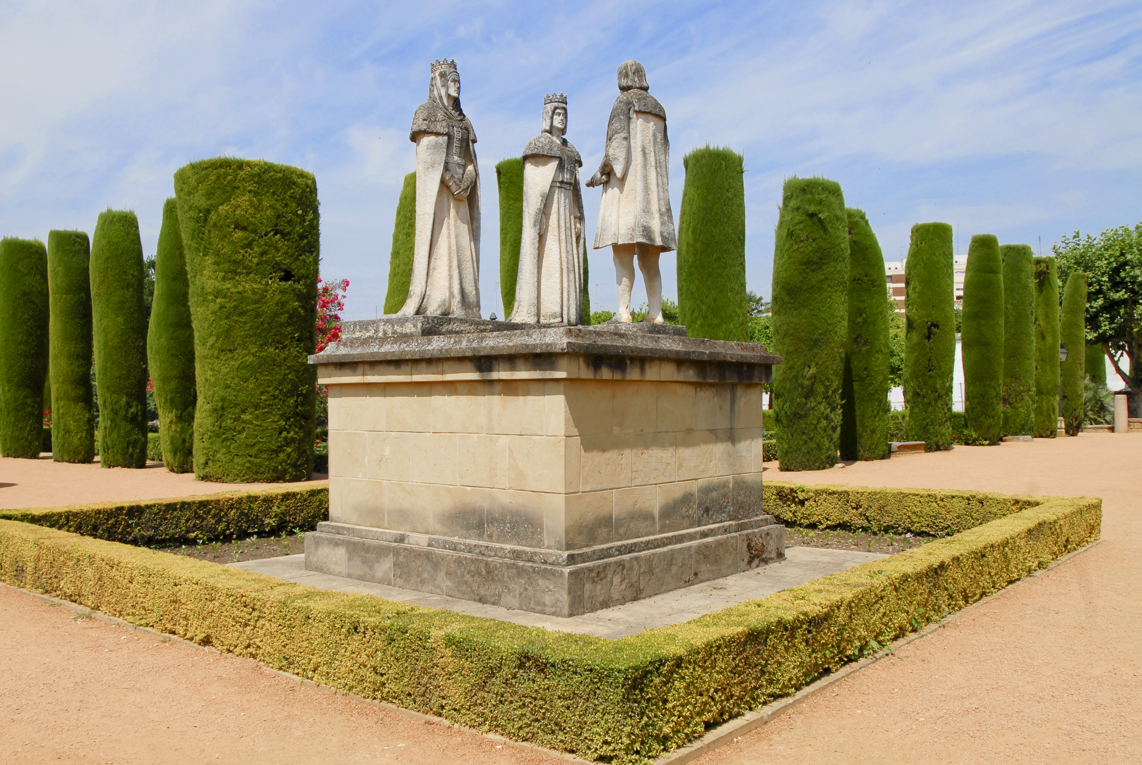 Statue of Christopher Columbus with his royal patrons 'los Reyes Cristianos' in the Alcazar gardens, Cordoba